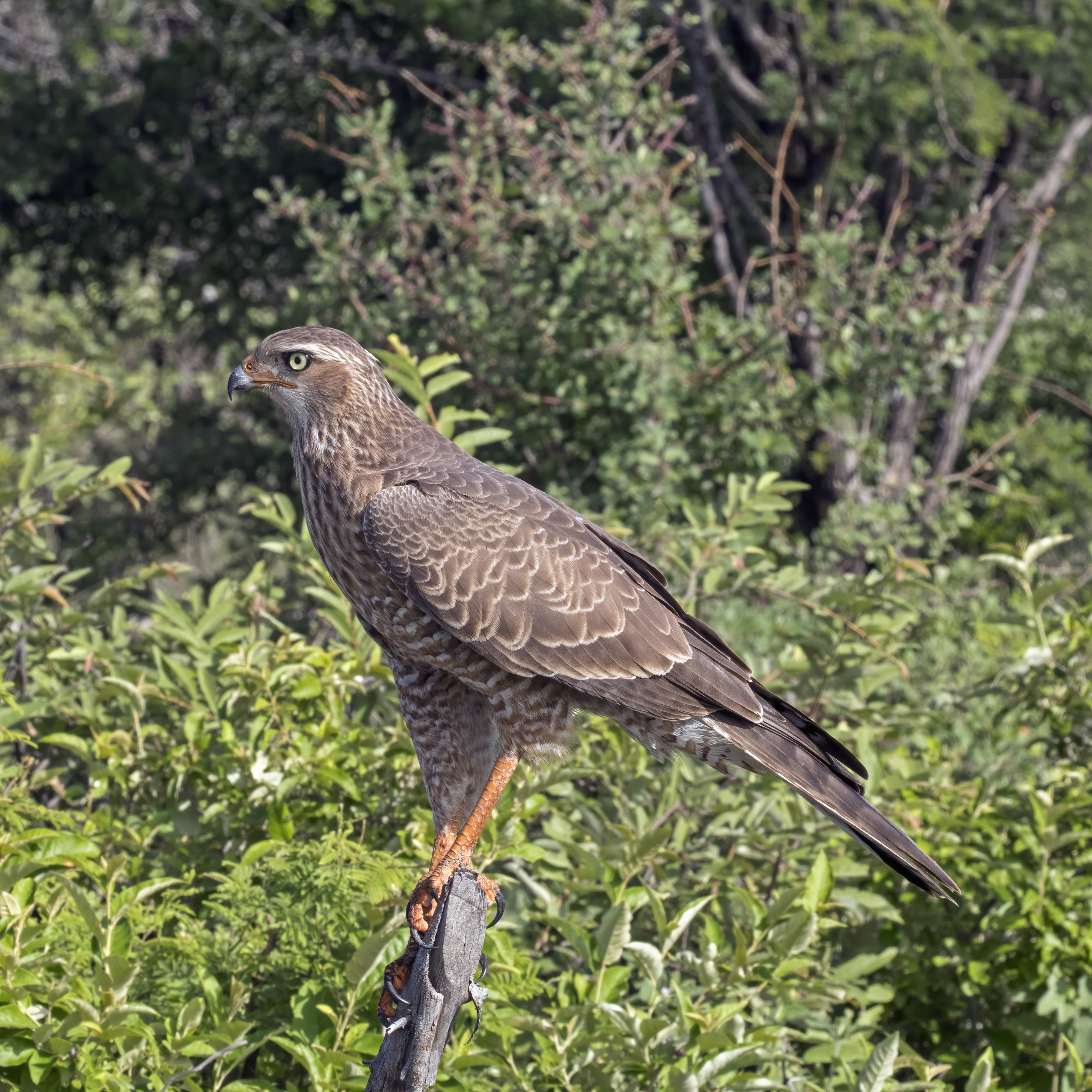 Southern pale chanting goshawk (Melierax canorus argentior) juvenile, Etosha National Park, Namibia